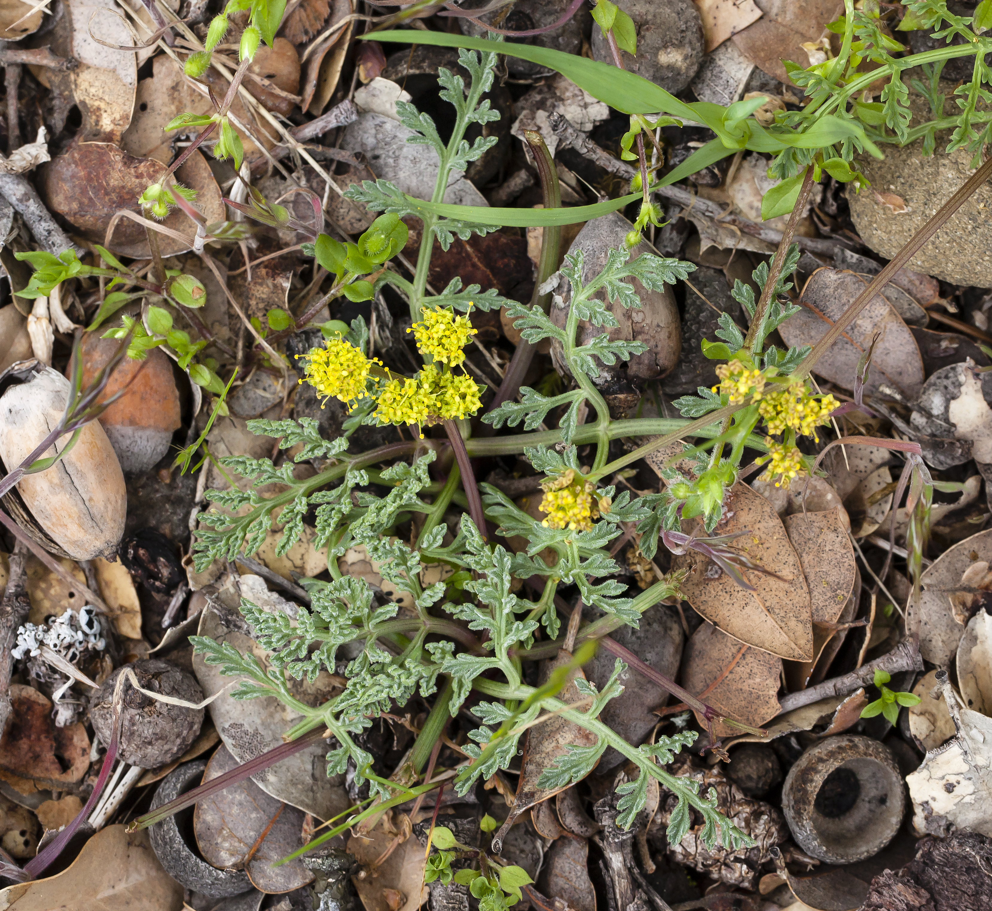 Lomatium observatorium (Mount Hamilton desertparsley), photographed near the summit of Mount Hamilton close to the Lick Observatory.